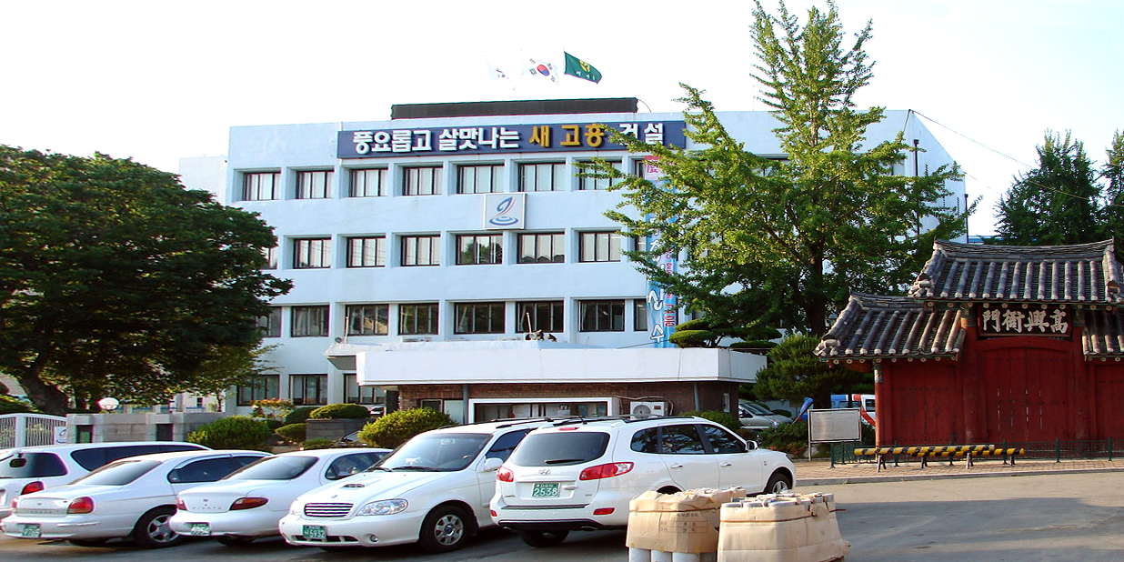 Goheung Count Office in Goheung, Jeollanam-do